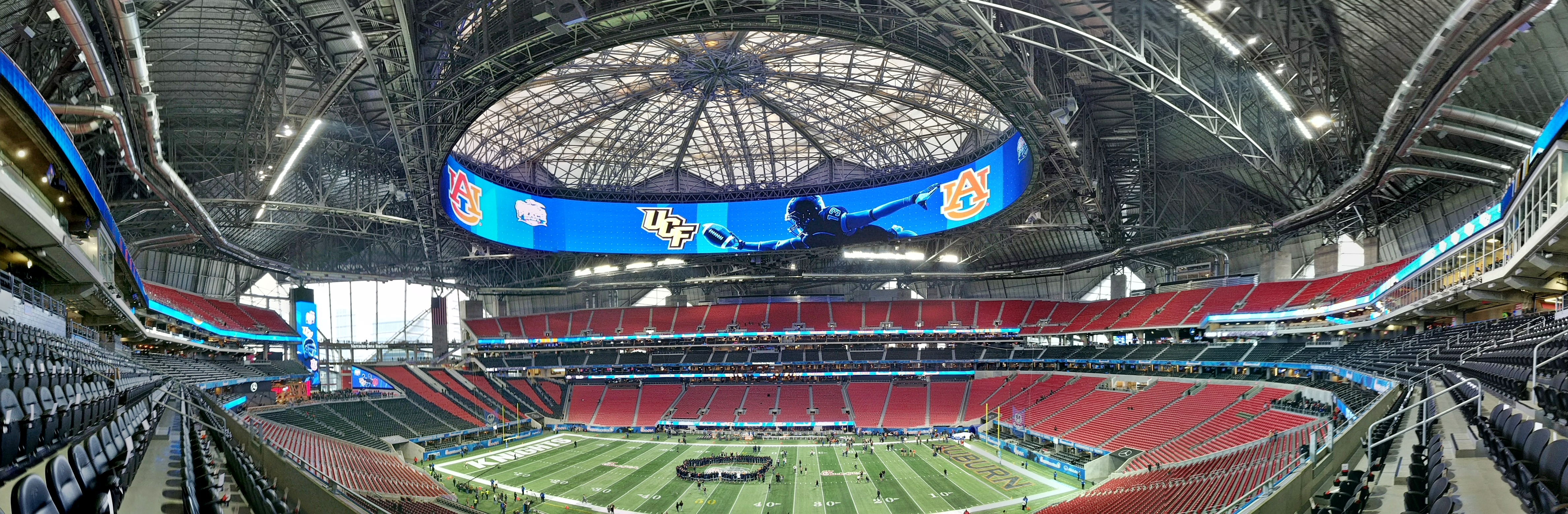 200 level photo sphere